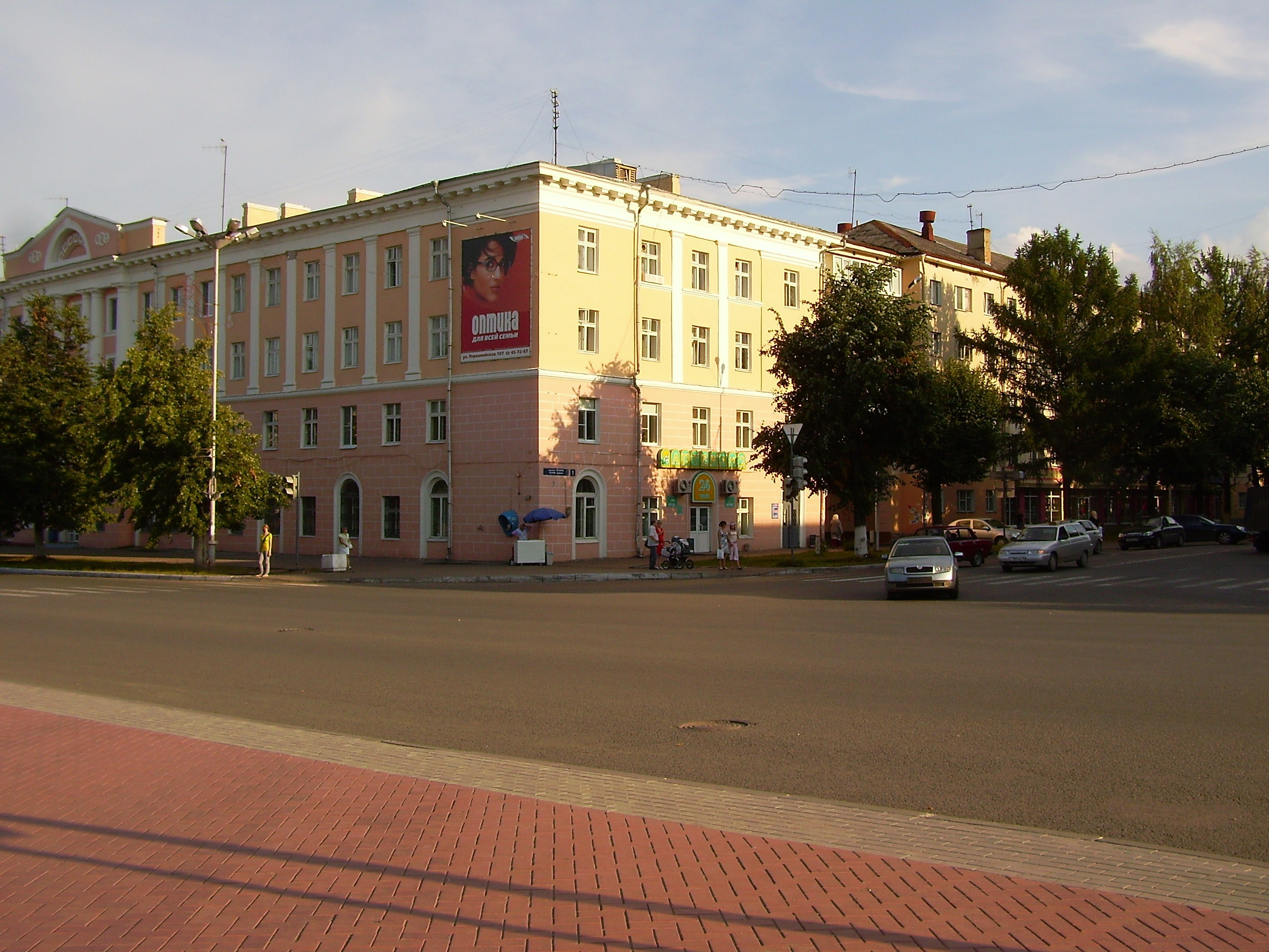 Typical building in the center of Yoshkar Ola